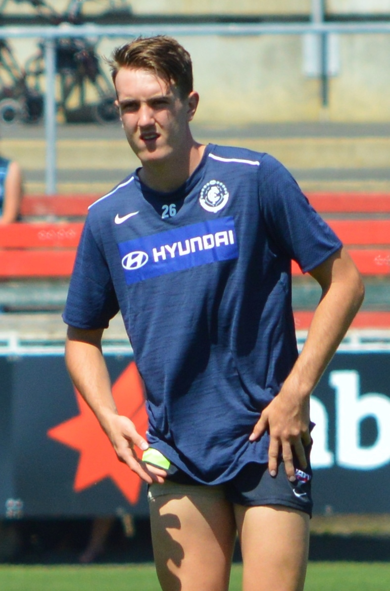 Harrison Macreadie warms up prior to a JLT Community series match with Carlton in March 2017